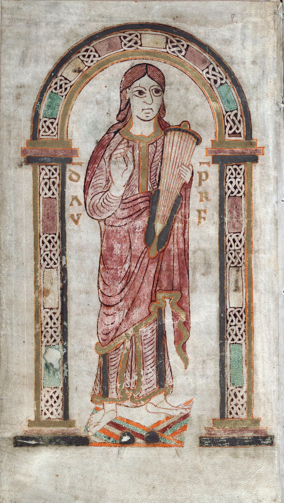 miniature of King David in the 8th century illuminated manuscript "Psaultier de Montpeller" in French or "Psalter von Montpellier" in German, that was made in the then bavarian monastary of Mondsee near Salzburg in what is now Upper Austria, the codex is now found under the signature Ms. H409 in the Bibliothèque Interuniversitaire Médicine de Montpellier, France